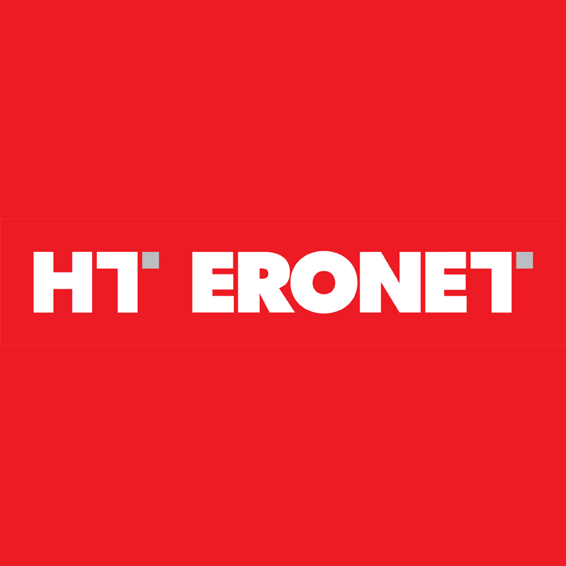 HT ERONET Company logo